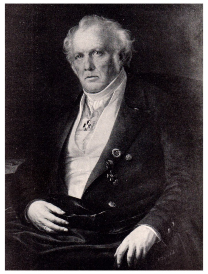 Architect Avraam Melnikov (1784-1854)